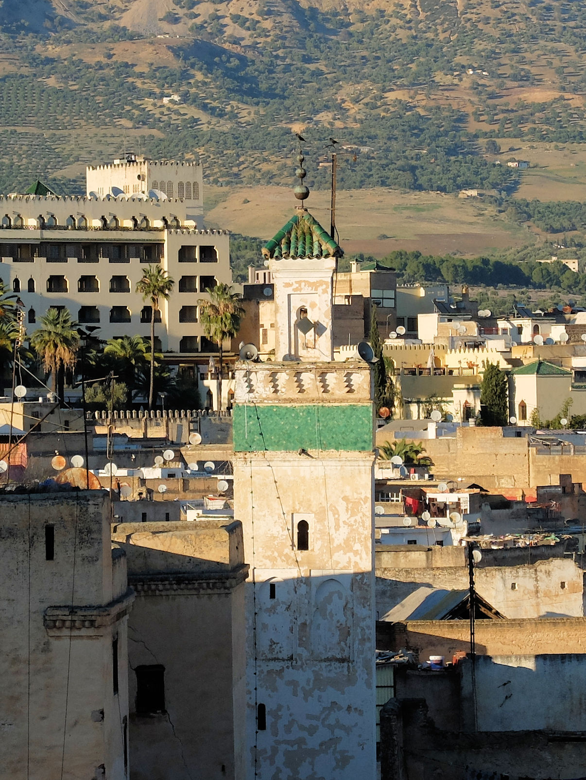 Minaret of the Diwan Mosque, seen from the south.